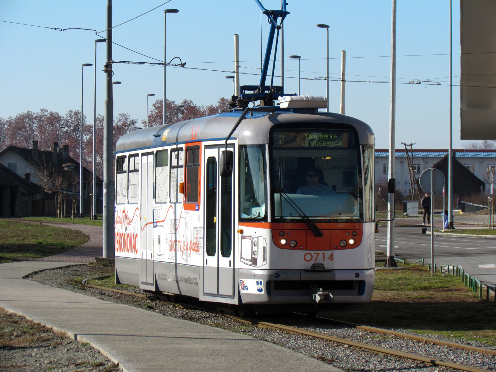 Modern tram in OsijekHrvatski: Moderni osječki tramvaj